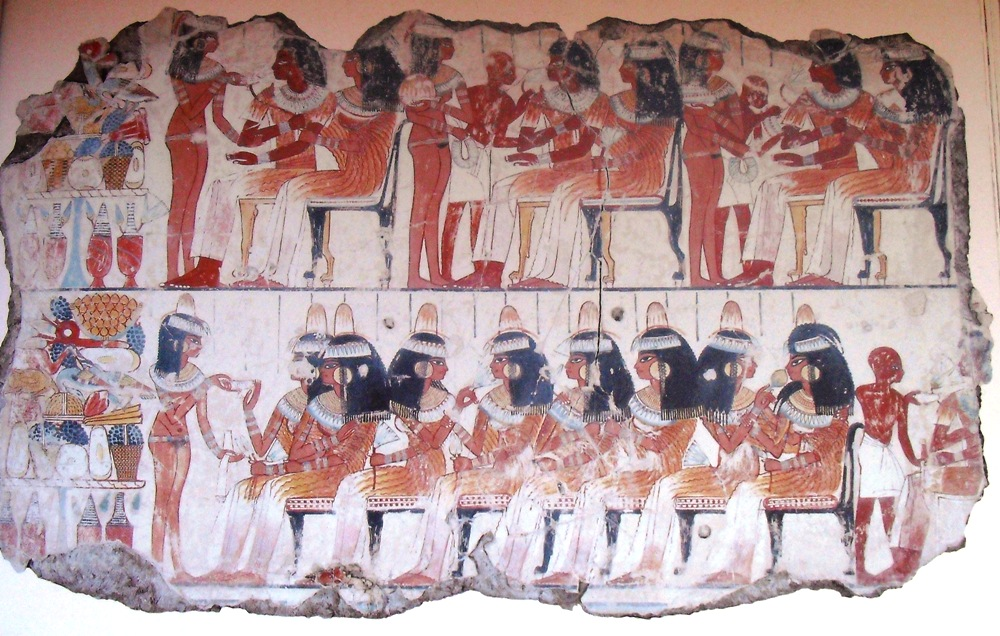 banquet scene, tomb of Nebamun, British Museum